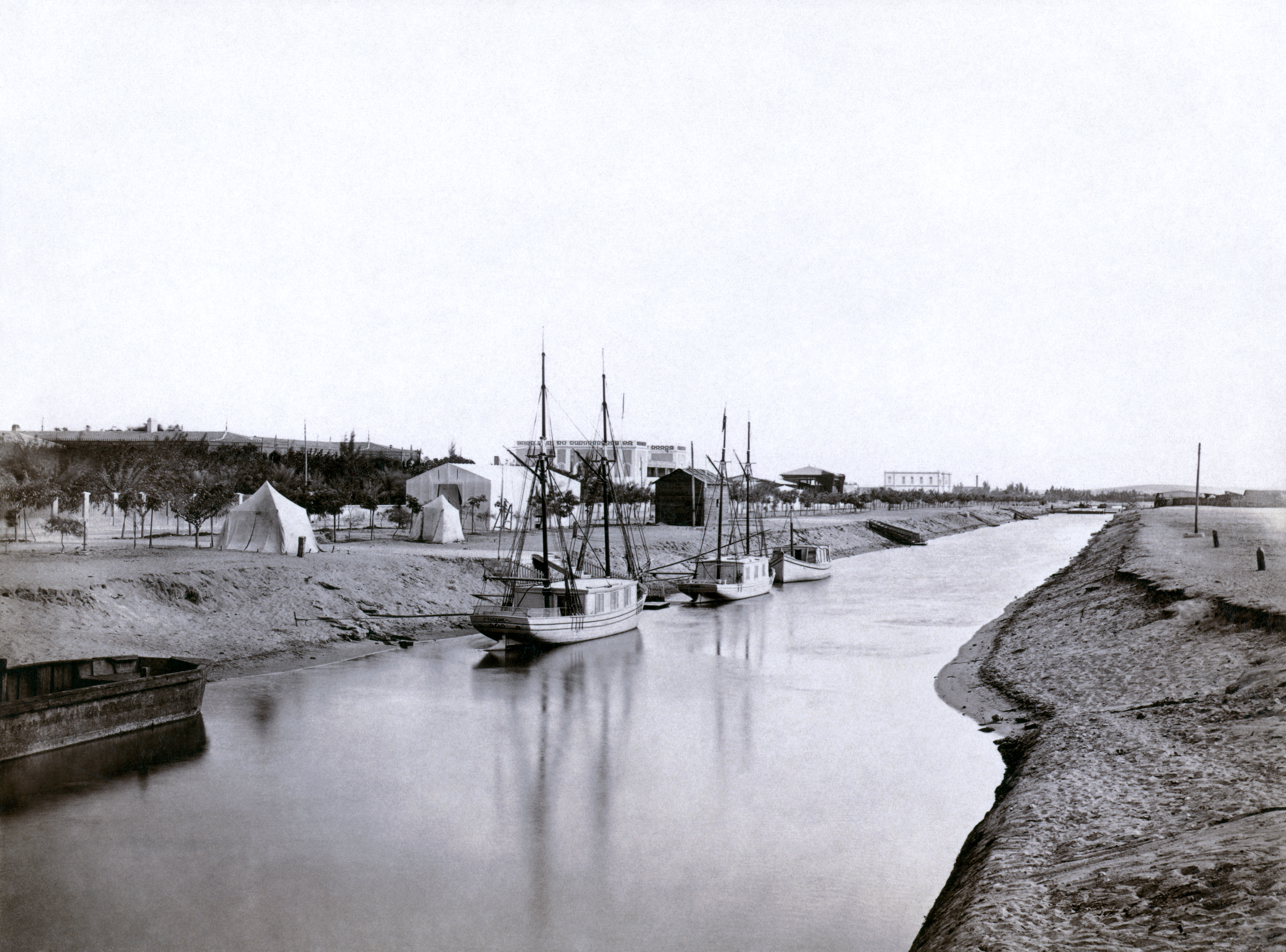 "The freshwater canal at Ismailia" albumen print. Designed by French engineers, it was constructed between 1861 and 1863.